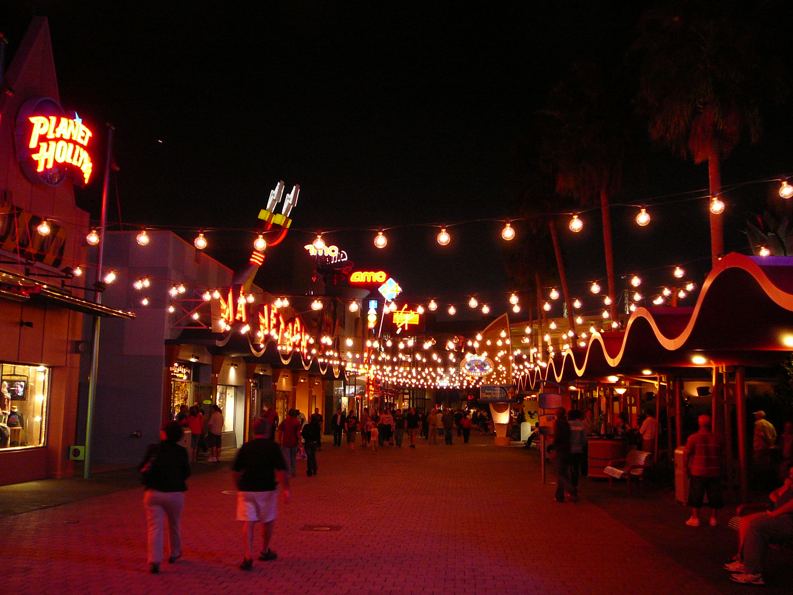 Downtown Disney